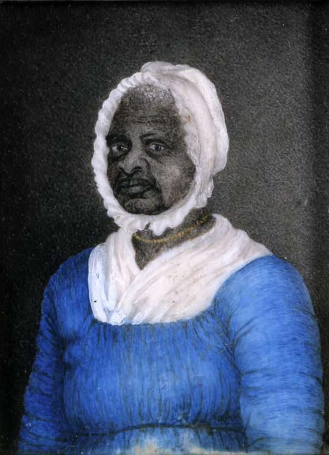 Mum Bett, aka Elizabeth Freeman, aged 70. Painted by Susan Ridley Sedgwick, aged 23. Watercolor on ivory, painted circa 1812. Photo courtesy of Massachusetts Historical Society, Boston